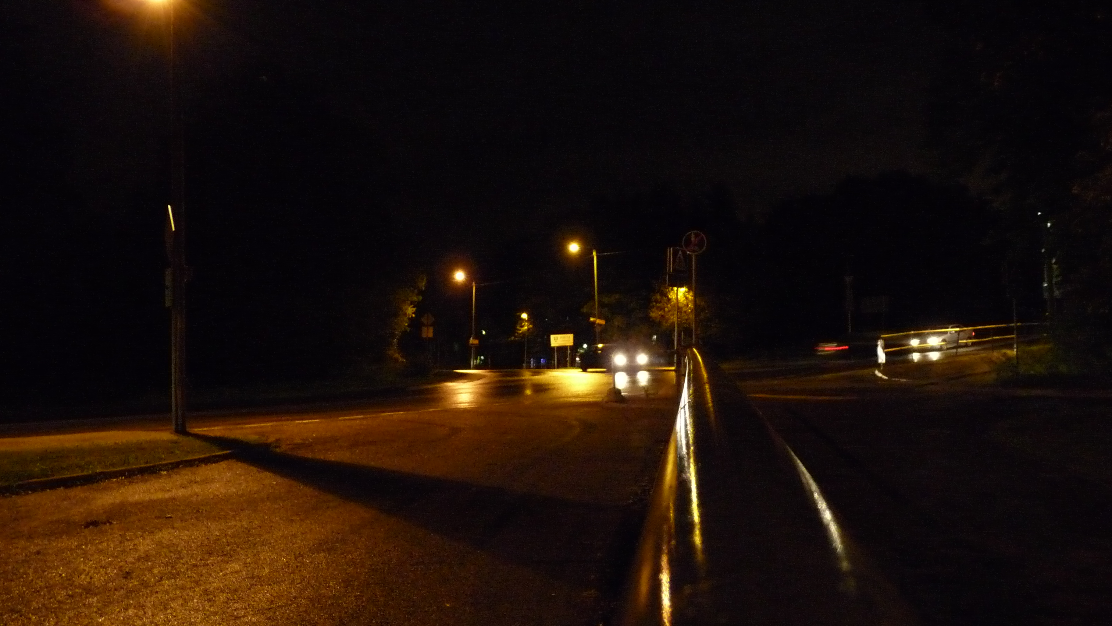 Iru quarter